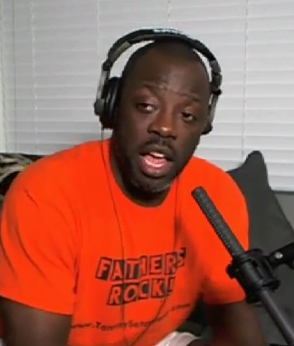 Tommy "TJ" Sotomayor. Social and political speaker and film producer.